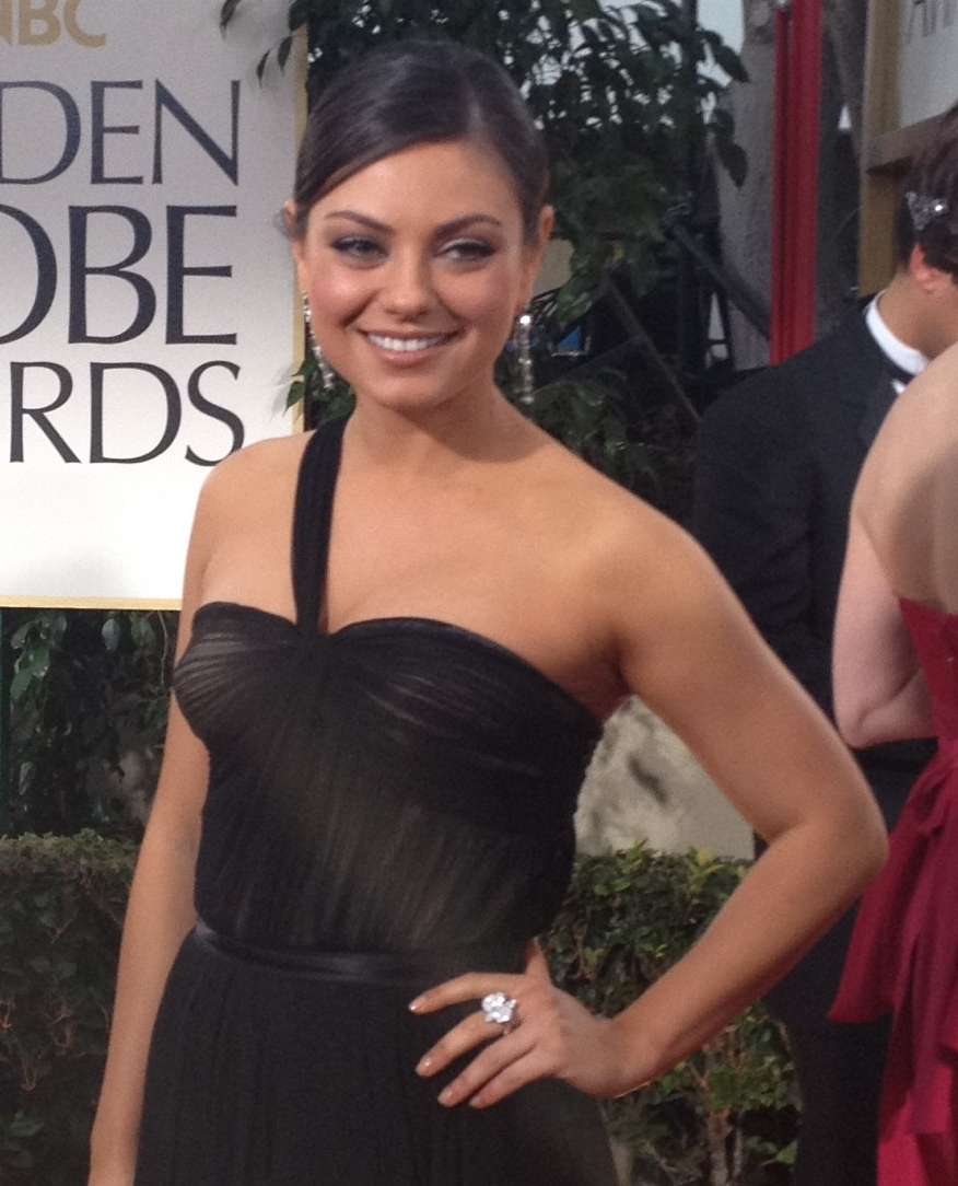 Mila Kunis at the 69th Annual Golden Globes Awards 2012.